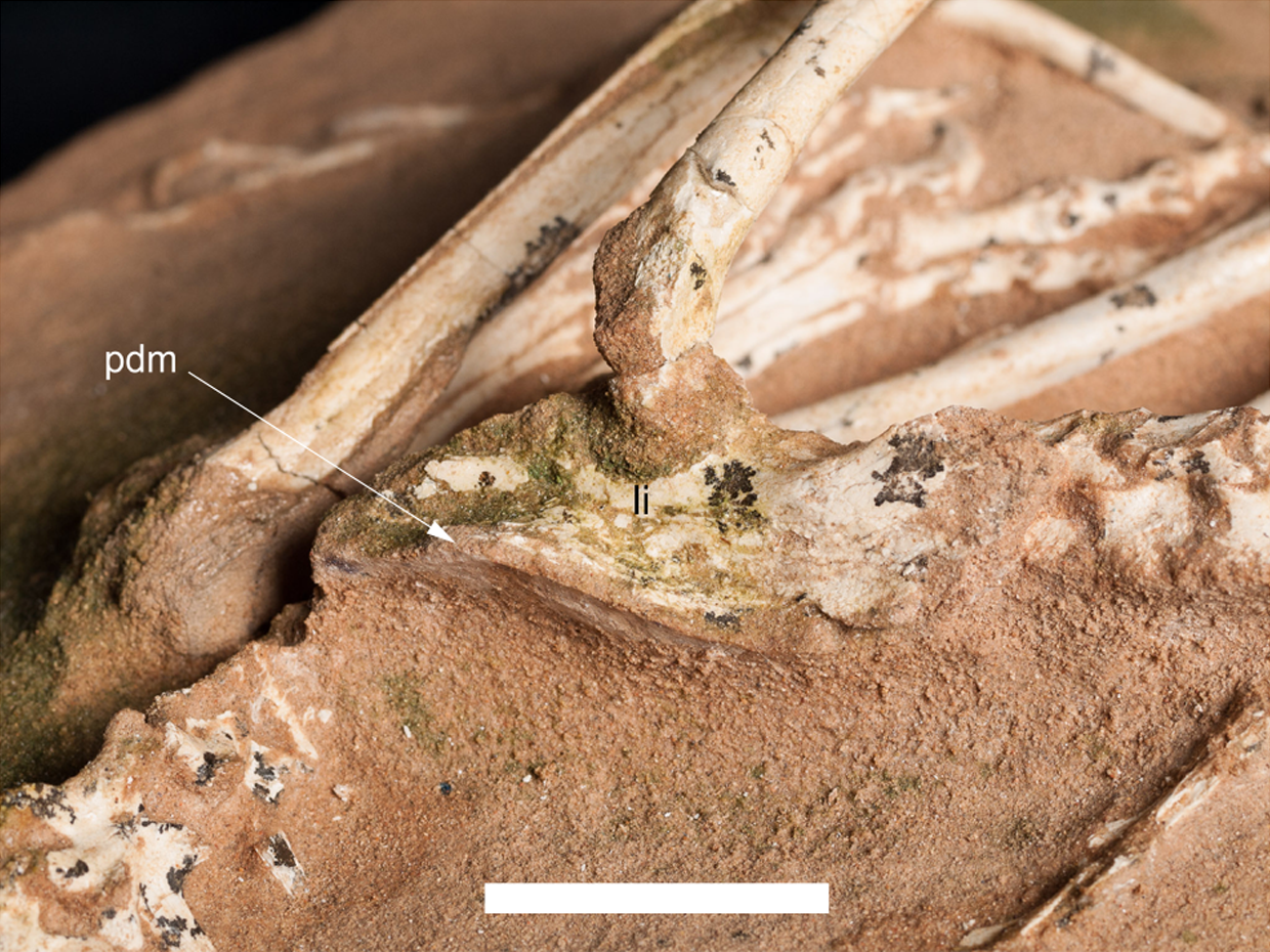 Development of the supratrochanteric process in the paravian theropod Halszkaraptor escuilliei MPC D-102/109. Pelvic region of H. escuilliei, in dorsomedial view. Note the prominent supratrochanteric process which overhangs the lateral surface of the ilium. Scale bar = 30 mm. Abbreviations: pdm, posterodorsal margin.